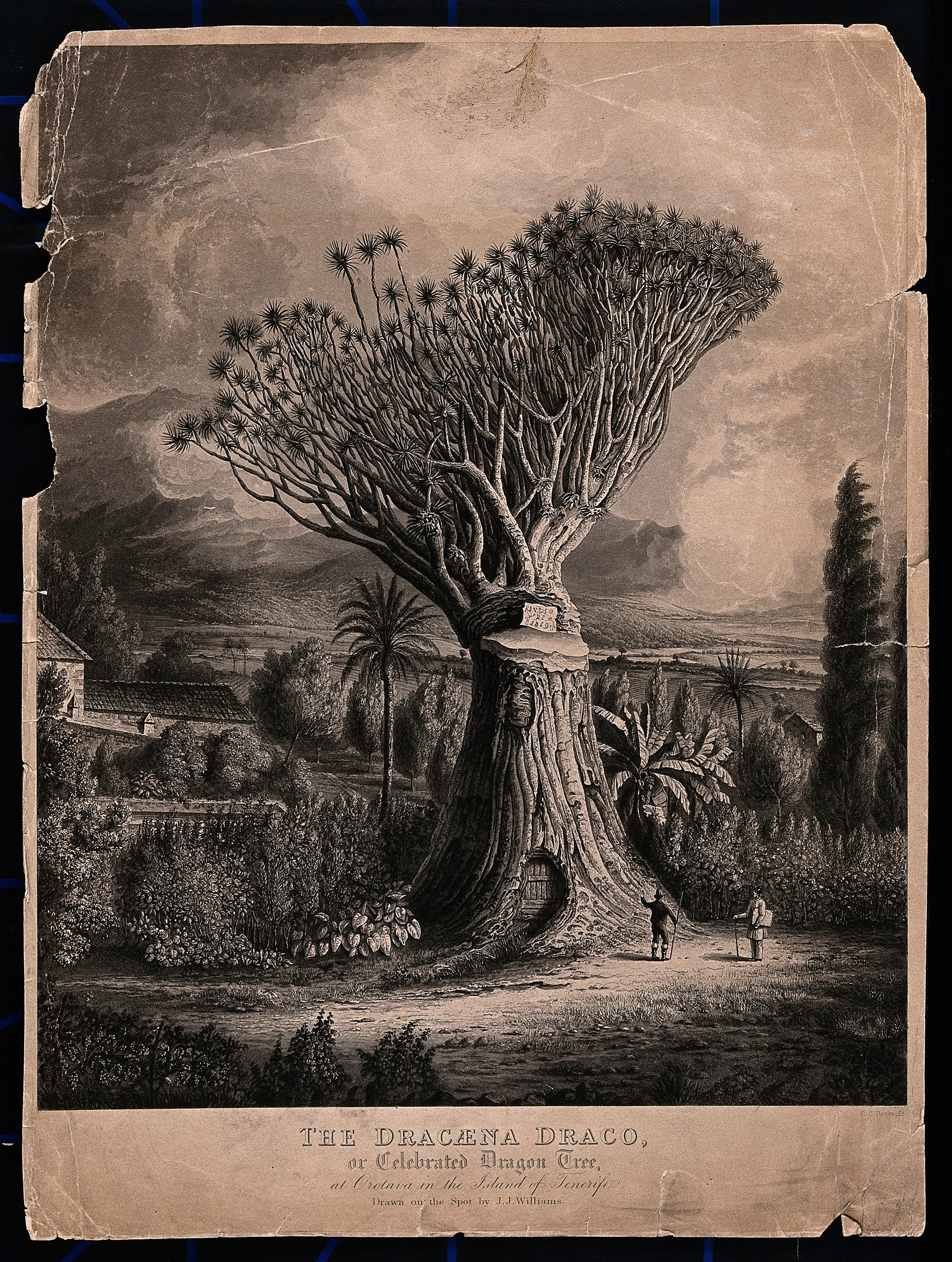 An old dragon tree (Dracaena draco) with a gash in its stem releasing its "dragon's blood" resin and a door in its trunk. Aquatint with etching by R. G. Reeve after J. J. Williams, c.1819. Iconographic Collections Keywords: J. J. Williams; R. G. Reeve